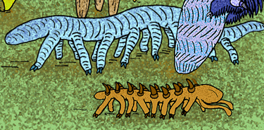 Reconstruction of the Cambrian organism, Hallucigenia fortis, as an onychophoran, in comparison with the Maotianshan shales onychophoran Paucipodia inermis (C) Stanton F. Fink